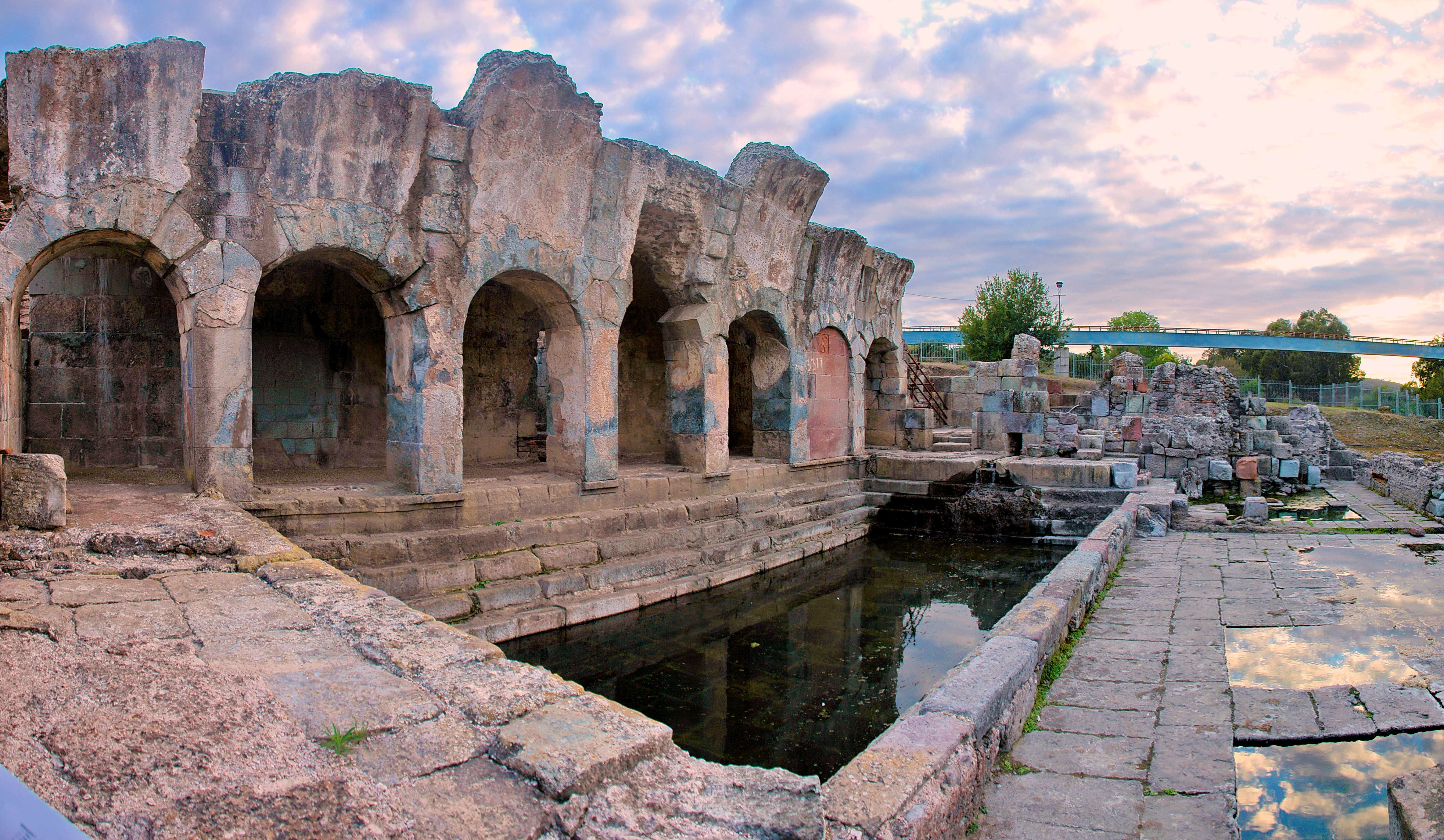 roman thermal baths in Fordongianus (Sardagna)